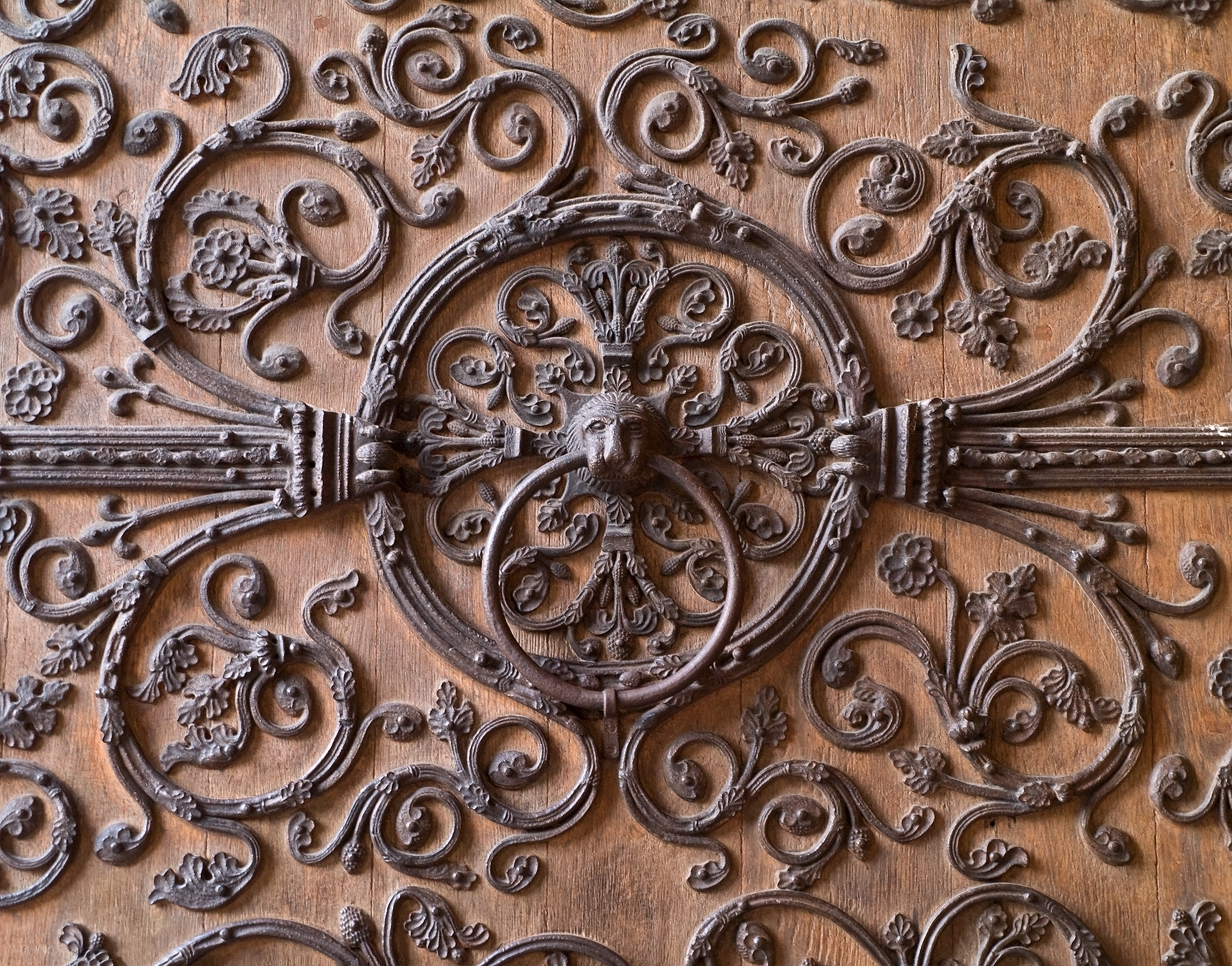 Sanctuary ring on a door of the portal of the Virgin, on the western facade of Notre-Dame de Paris (France). In Middle Ages, grasping this kind of ring on a church door gave the right of asylum.